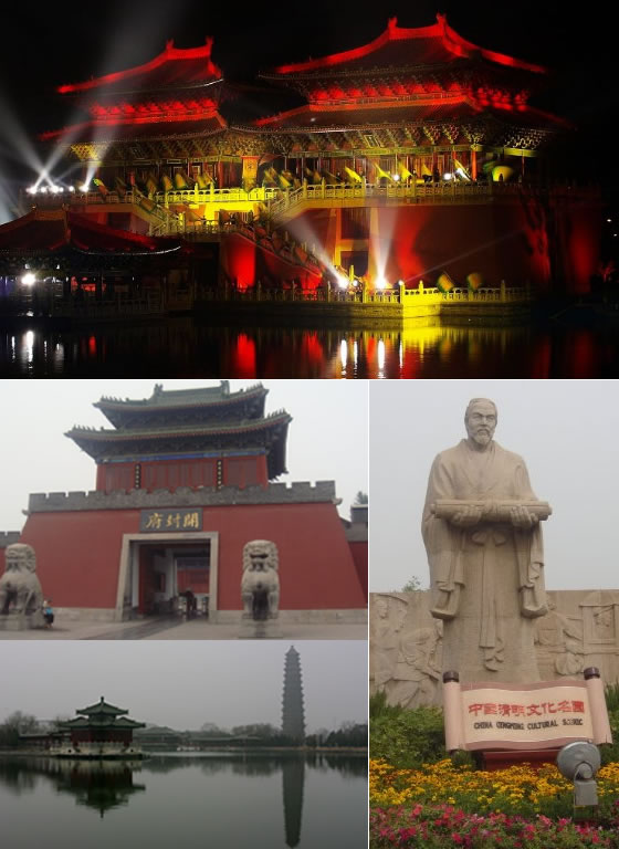 Kaifeng